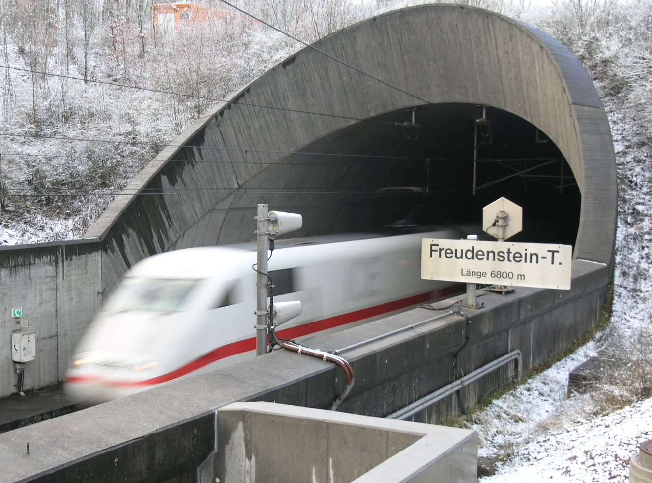 Antennas for tunnel coverage of a Deutsche Bahn GSM-R station at the eastern entrance of Freudenstein Tunnel, Mannheim-Stuttgart high-speed railway line